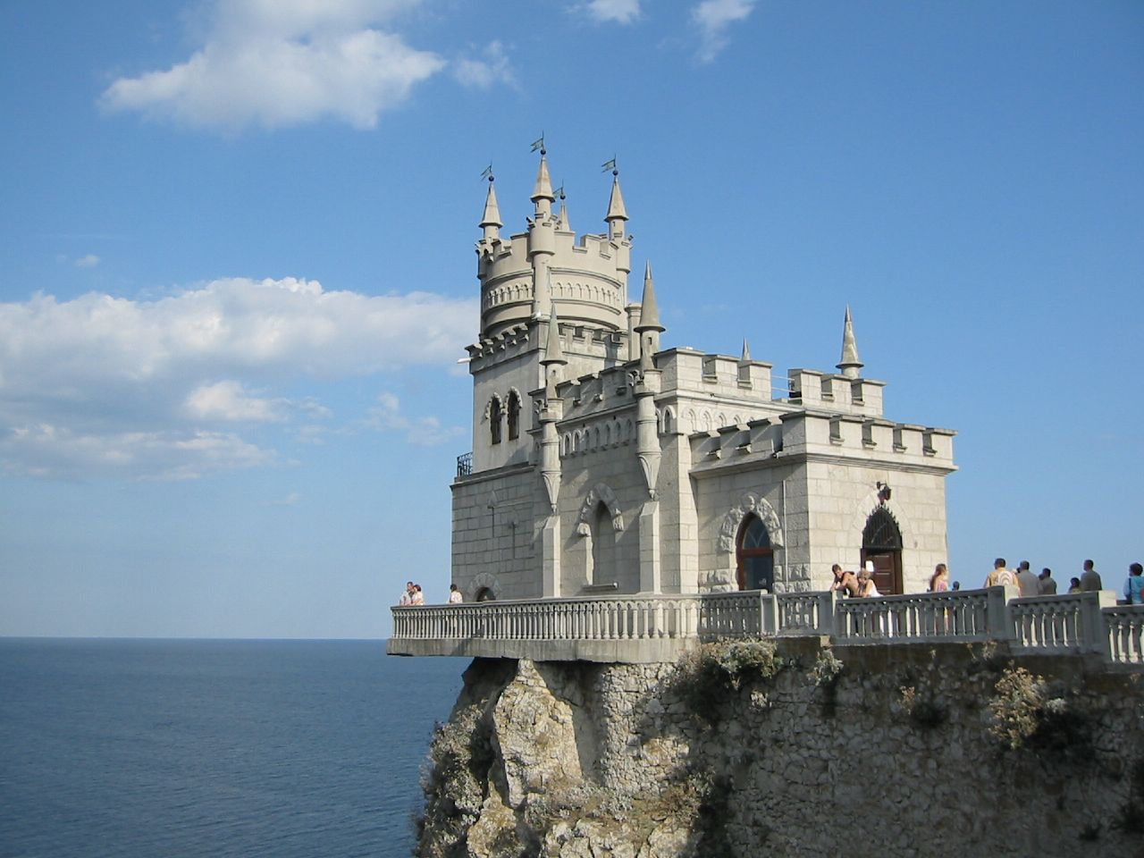 Swallow's Nest, one of the romantic castles of Neo-Gothic style near Yalta; built in 1912 by the order of a German baron Stengel according to a project of a Russian architect A. Sherwood.